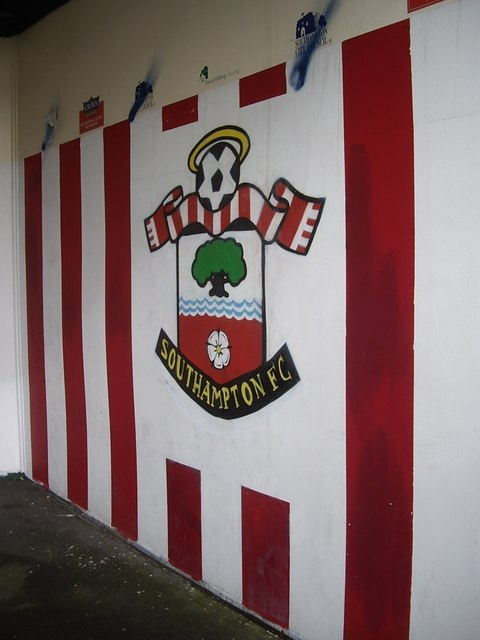 Reassurance! To fans heading to the match - this mural is at the east end of the railway footbridge. More of a Valete to those like myself heading west away from the ground.